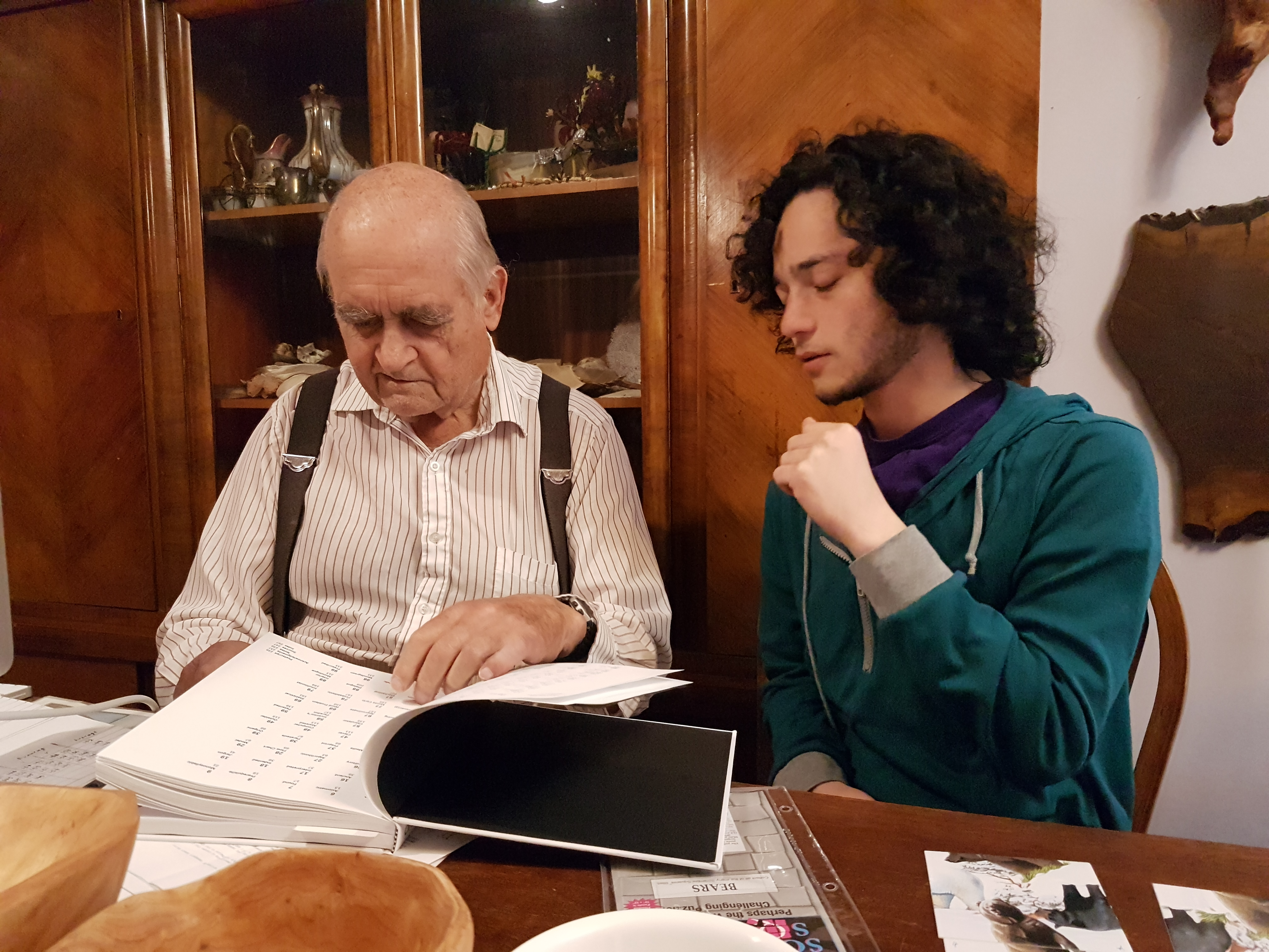 Wolfgang Haken discusses the four colour theorem with Marshall Pangilinan. They are looking at the book 99 Variations on a Proof by Philip Ording. By coincidence Marshall's grandparents live across the street from Professor Haken and both appear on the same page of the book